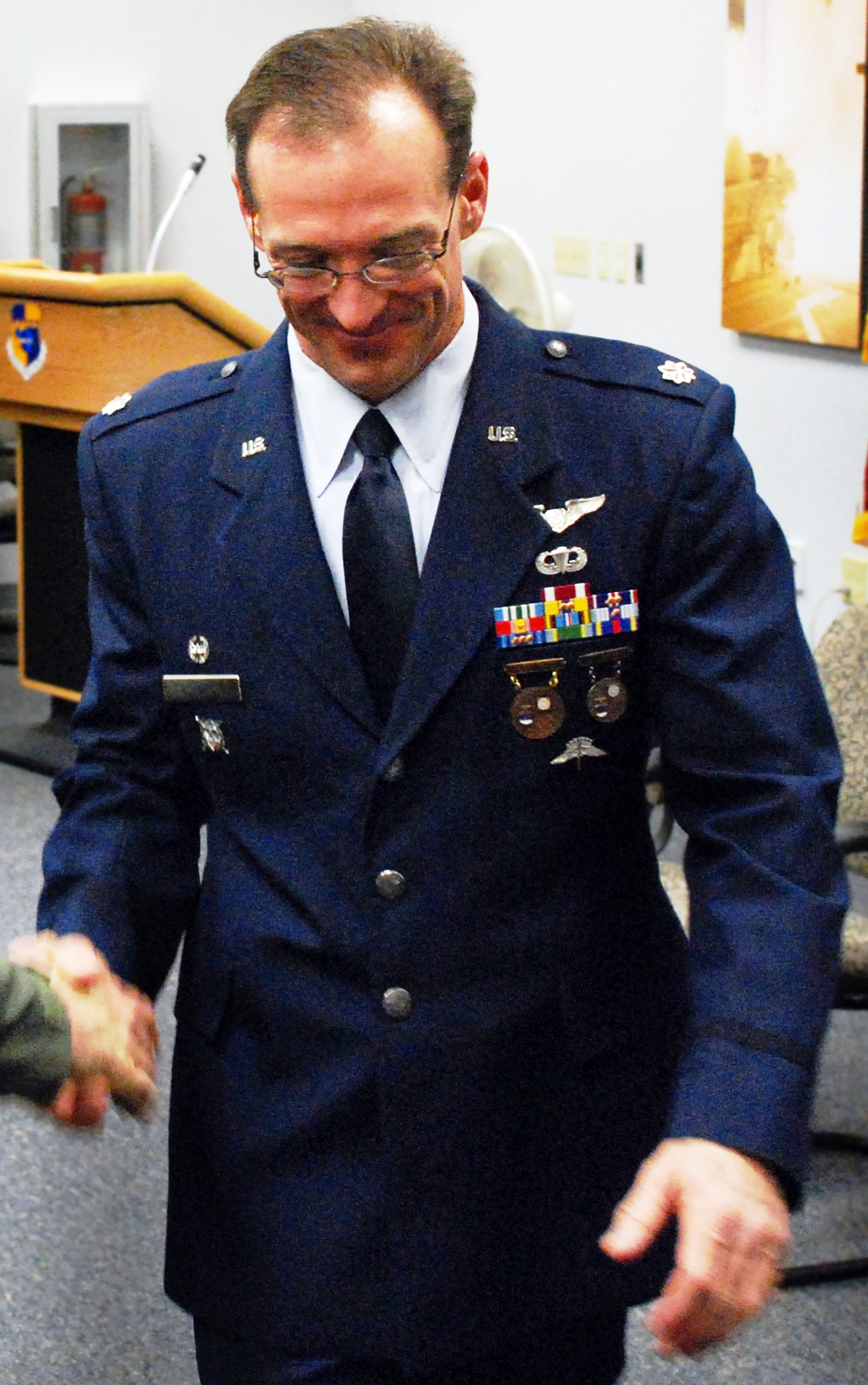 Cropped photograph of LtCol Coy Speer at a Passing of Command ceremony held at the Professional Development Center, Patrick AFB.